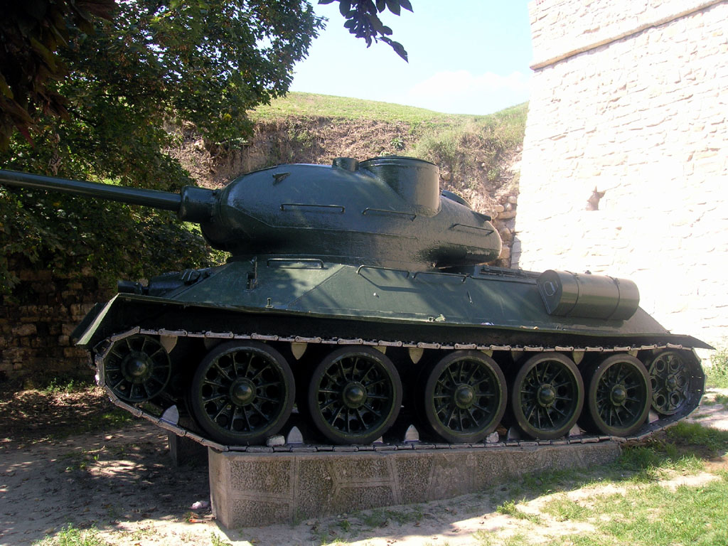 First Yugoslav built tank, Belgrade Military Museum, Serbia. Author of the picture is user Marko M.